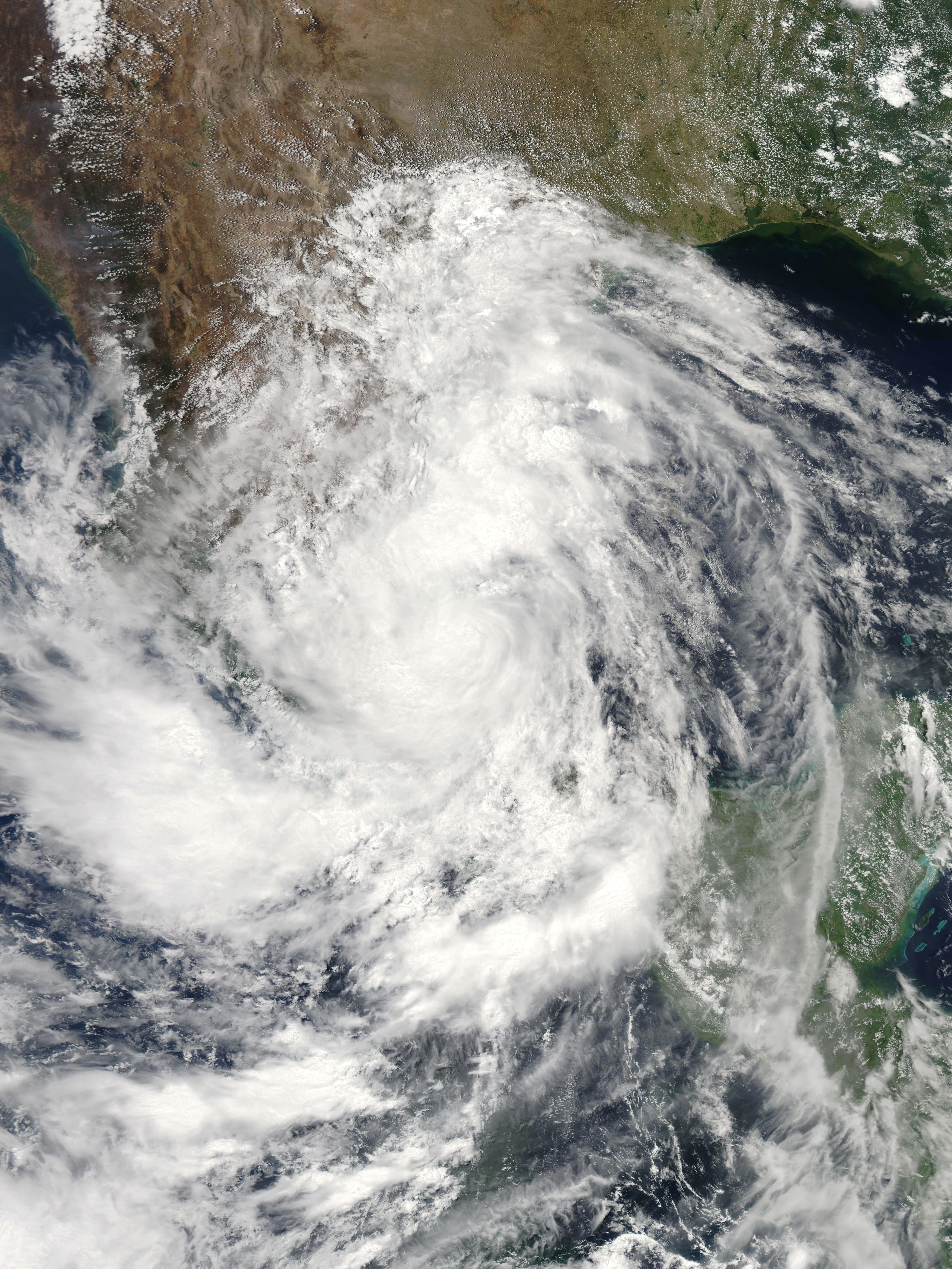 Tropical Storm Arlene moving inland over Mexico on June 30, 2011